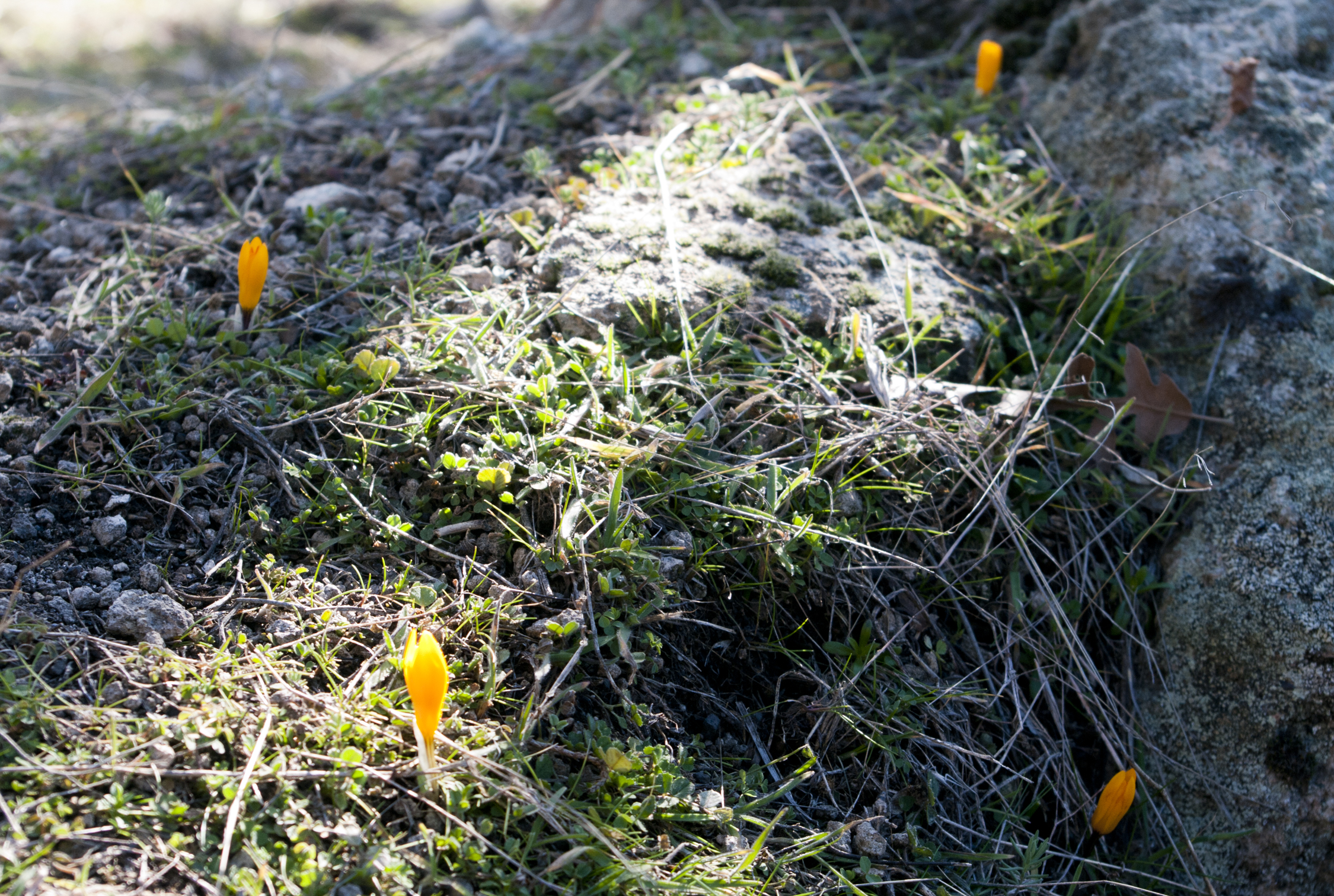 Golden crocuses (Crocus chrysanthus) flowering after melting snow in the forest clearings in front of İnkaya Phrygian rock-cut tombs. Seyitgazi, Eskişehir - Turkey.